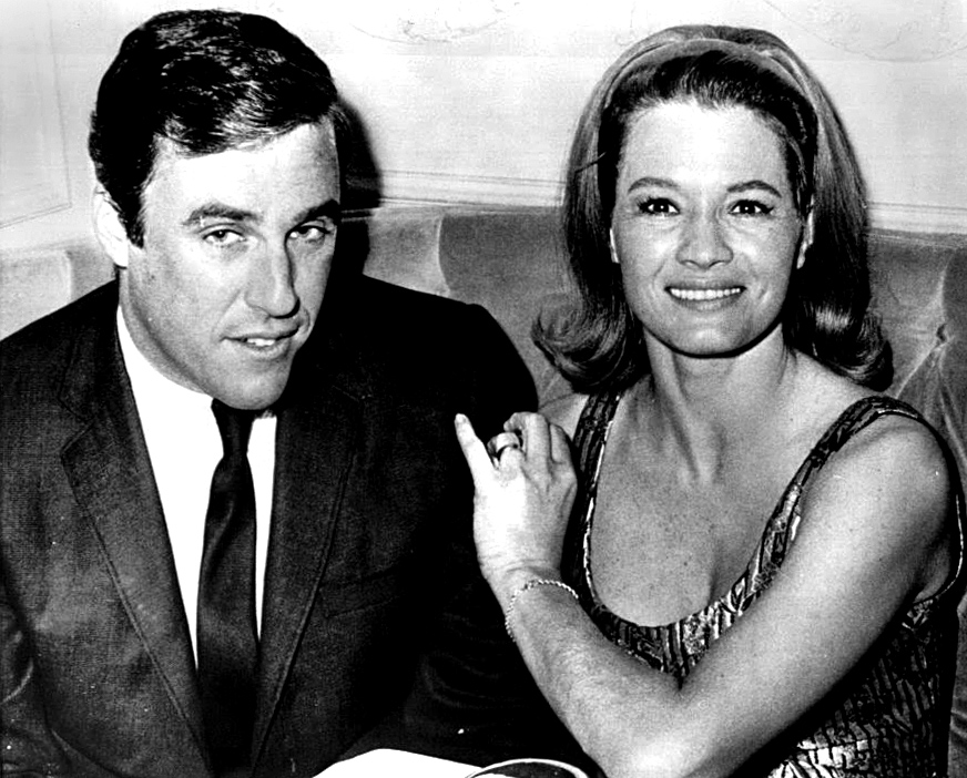 Candid photo of Burt Bacharach and Angie Dickinson two weeks after they married.